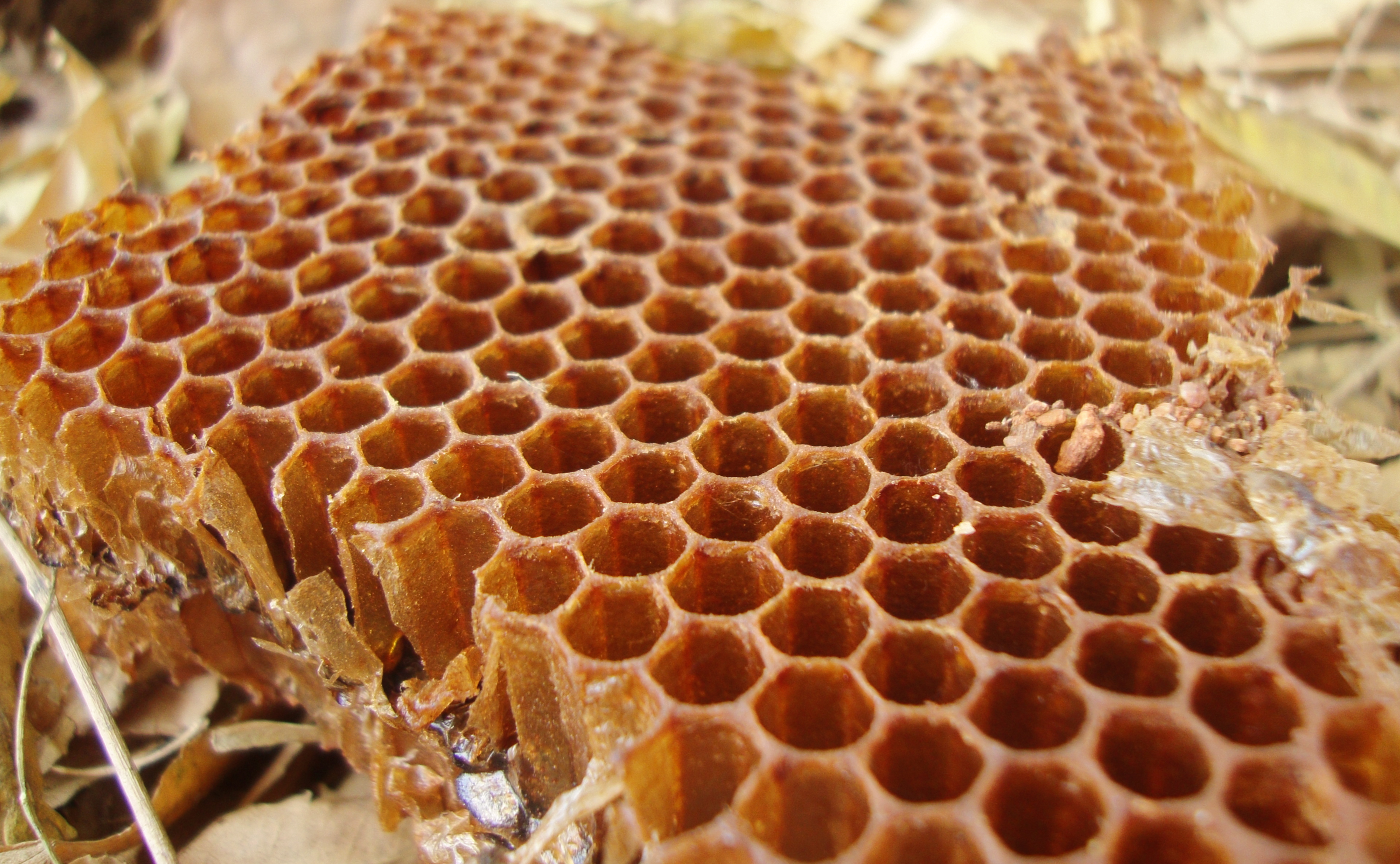 Beehive